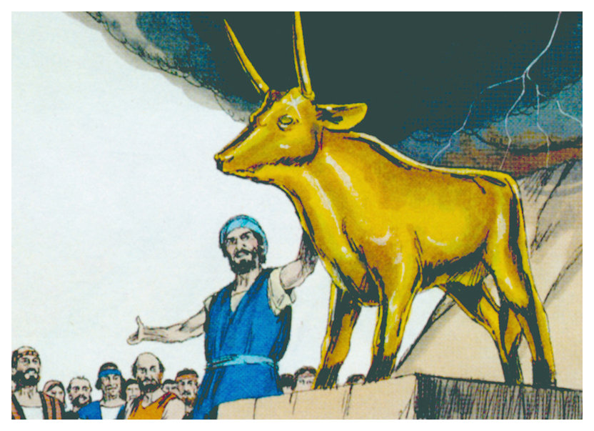 Biblical illustration of Book of Exodus Chapter 33